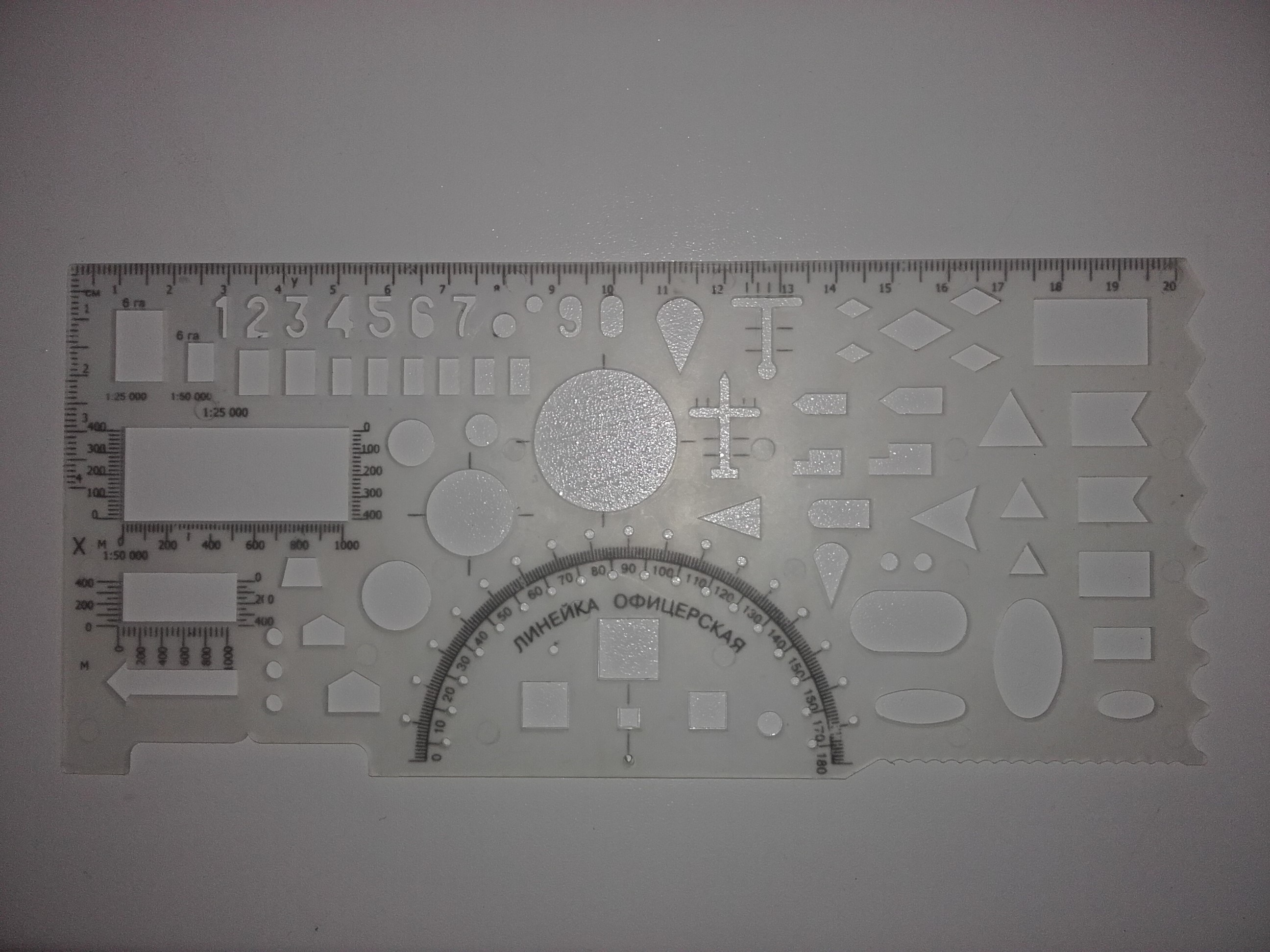 Combat mission plotter (Russia, 2008)